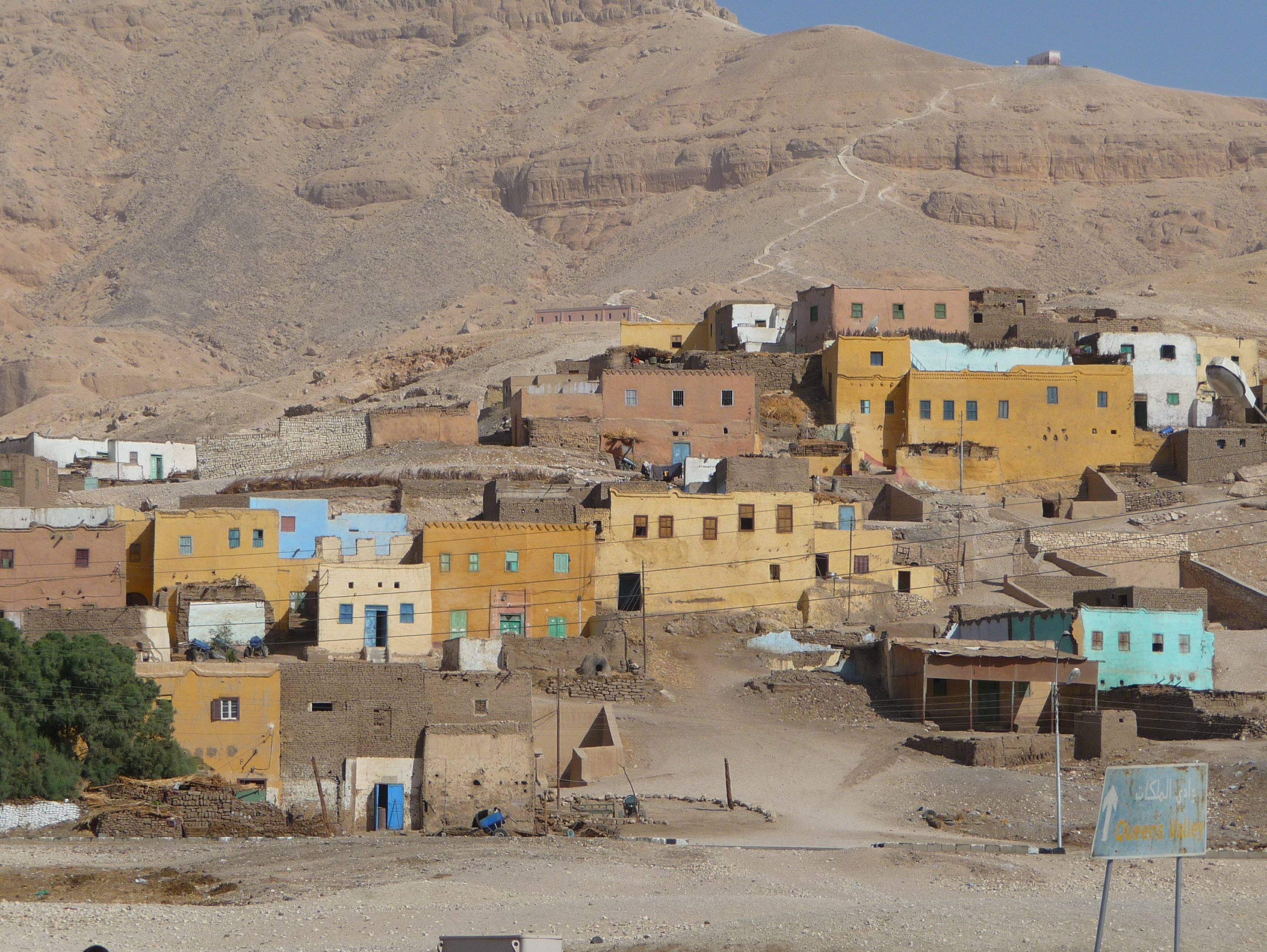 Qurna (or Old Gourna) on the west bank at Thebes